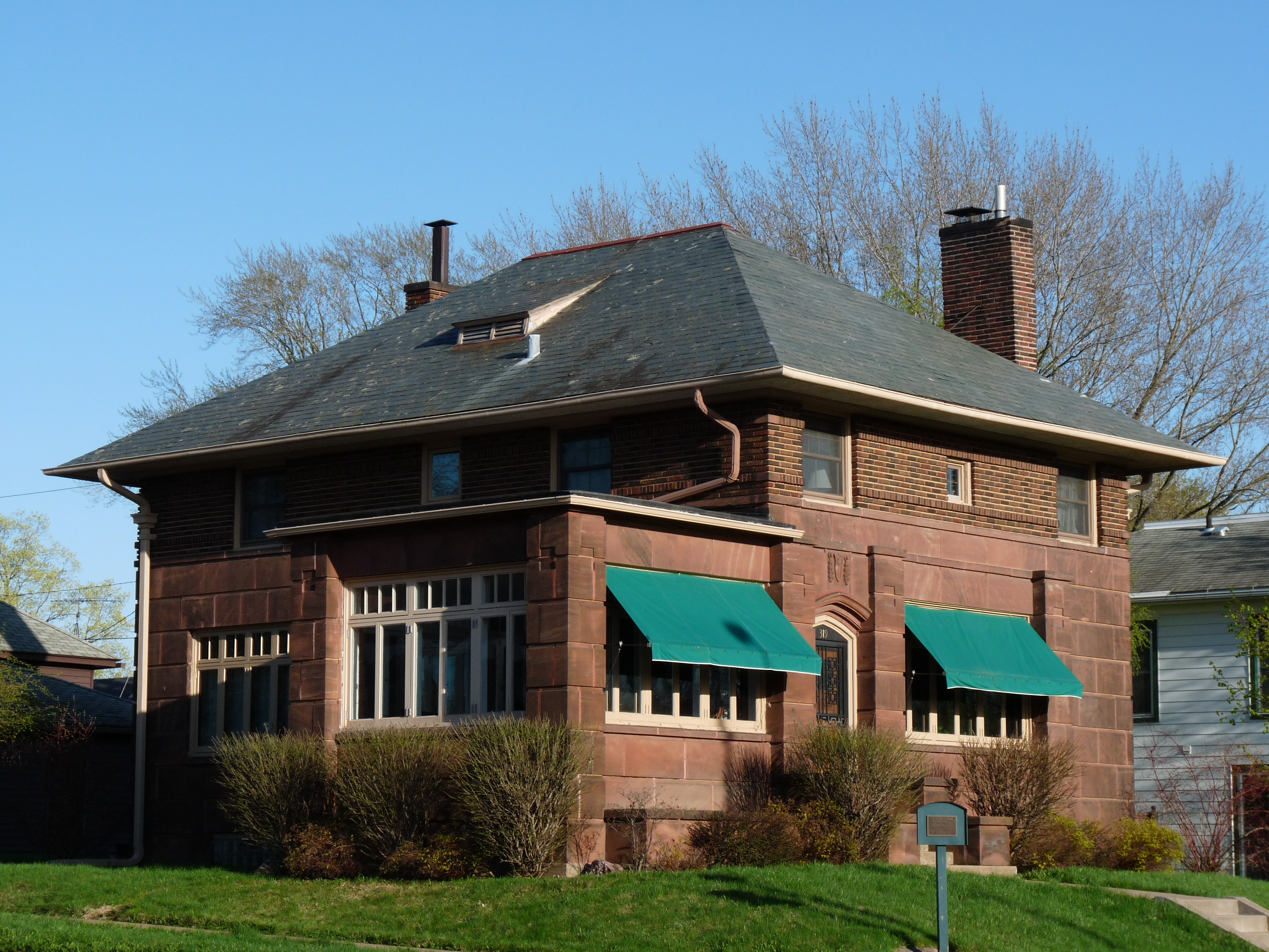 The Charles and Katharyn Sniteman house in Neillsville, Wisconsin is a Prairie Style house built in 1915. It was listed on the National Register of Historic Places in 2011.